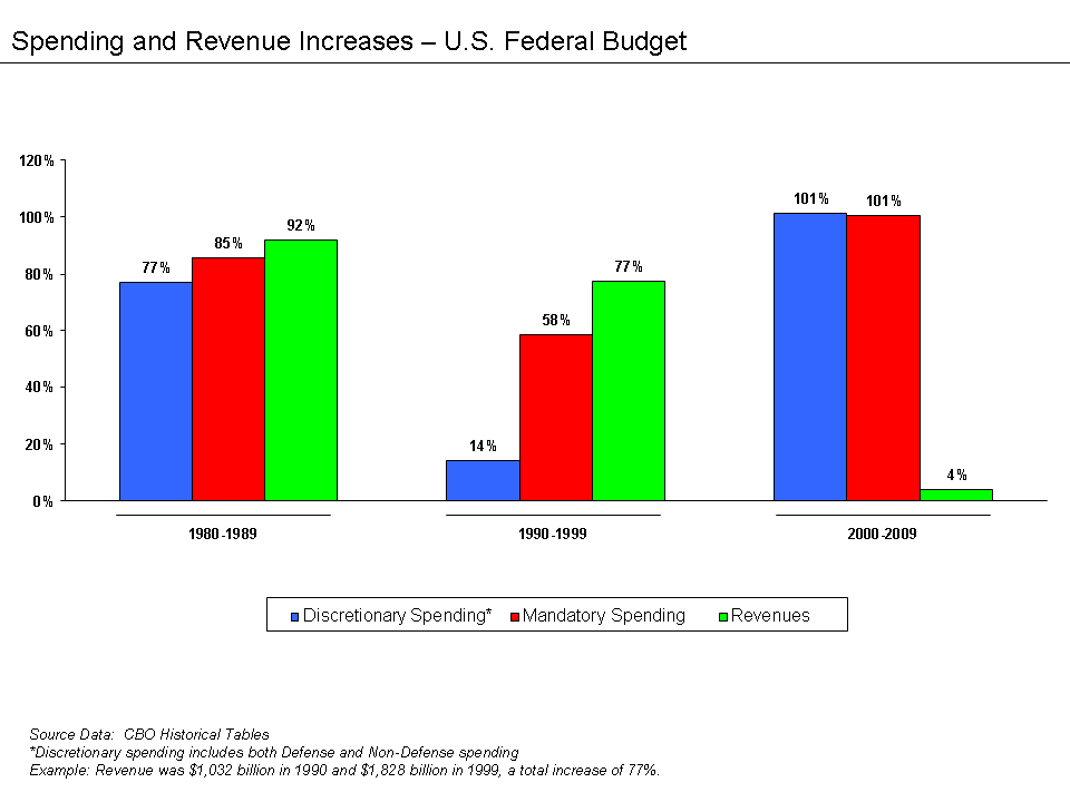 Revenue and Spending Increases Explanation of Graphic The graphic shows how discretionary spending (defense and non-defense), mandatory spending (Medicare, Social Security, welfare, etc.), and revenues increased over nine-year intervals. The formula is the spending in the last year divided by the spending in the first year in the interval. For example, Revenue was $1,032 billion in 1990 and $1,828 billion in 1999, a total increase of 77%. The budget was balanced from 1998-2001. During the 1990s, revenue grew considerably more than discretionary spending increases or mandatory spending increases. Government spending has not declined in nominal dollar terms since at least 1970, according to the CBO historical tables. So limiting spending increases while growing revenues was one of the strategies used during the 1990s to balance the budget. The source data is: CBO Historical Tables Through 2010